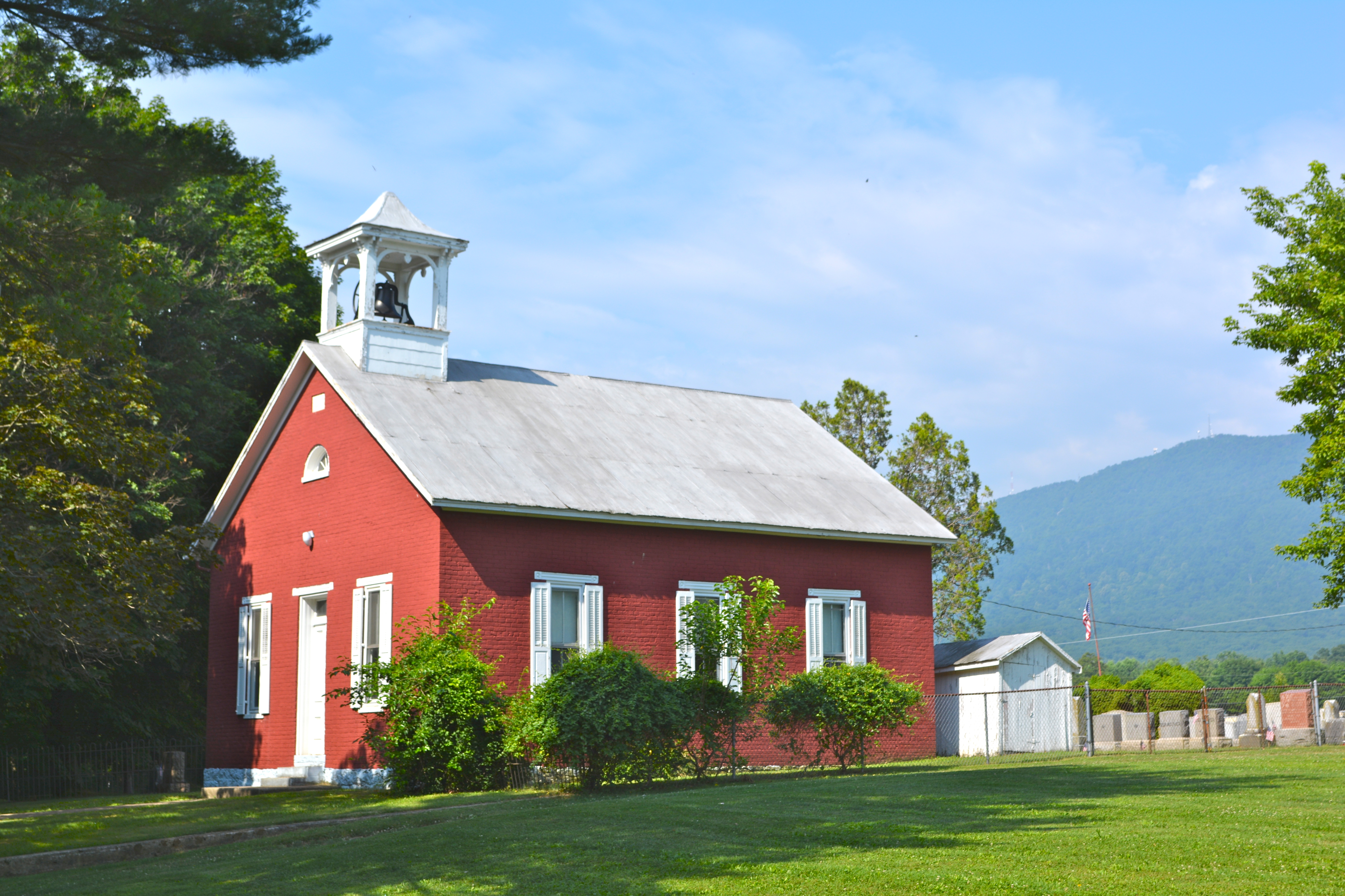 Building in Upper Strasburg, Franklin County, Pennsylvania